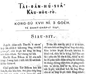 The March en:1891 issue of Taiwan Provincial Church News (Tâi-oân-hú-siâⁿ Kàu-hōe-pò 台灣府城教會報), an example of Taiwanese written in Latin characters. This is the first publication in Taiwan. From